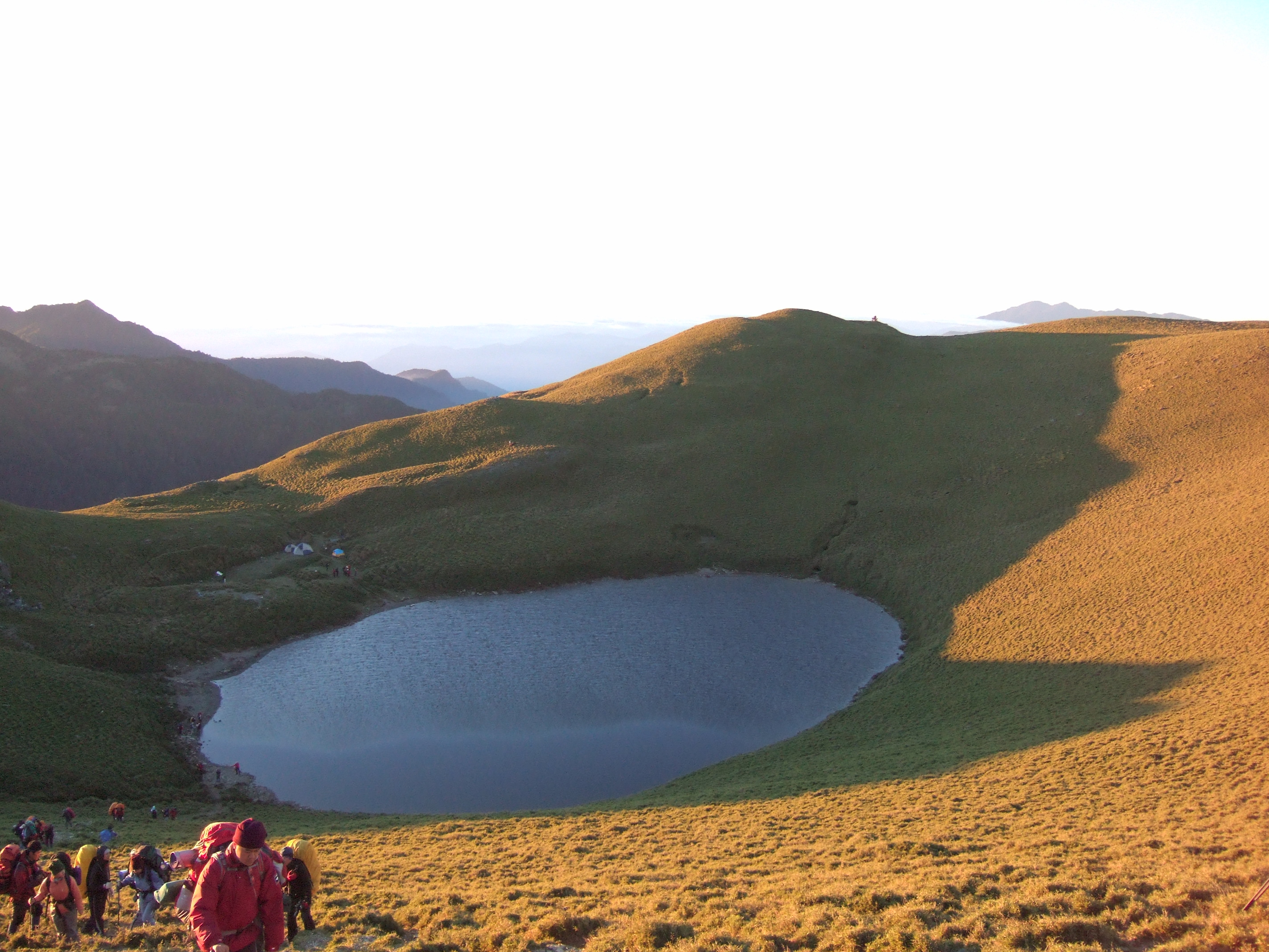 Chiaming Lake, Haiduan Township, Taitung County, Taiwan